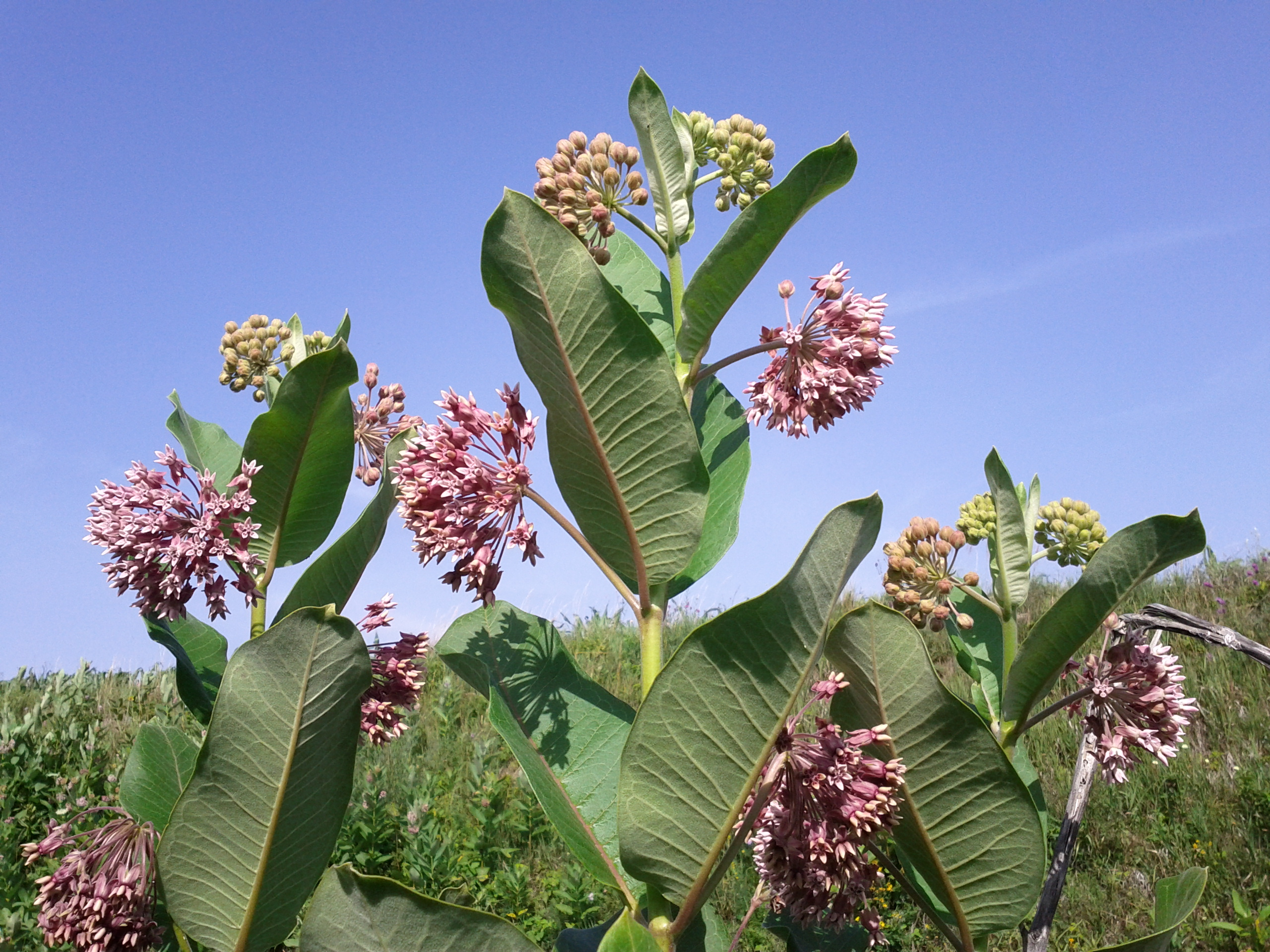 Habitus Taxonym: Asclepias syriaca ss Fischer et al. EfÖLS 2008 ISBN 978-3-85474-187-9 Location: near Karnabrunn, district Korneuburg, Lower Austria - ca. 250 m a.s.l. Habitat: ballast